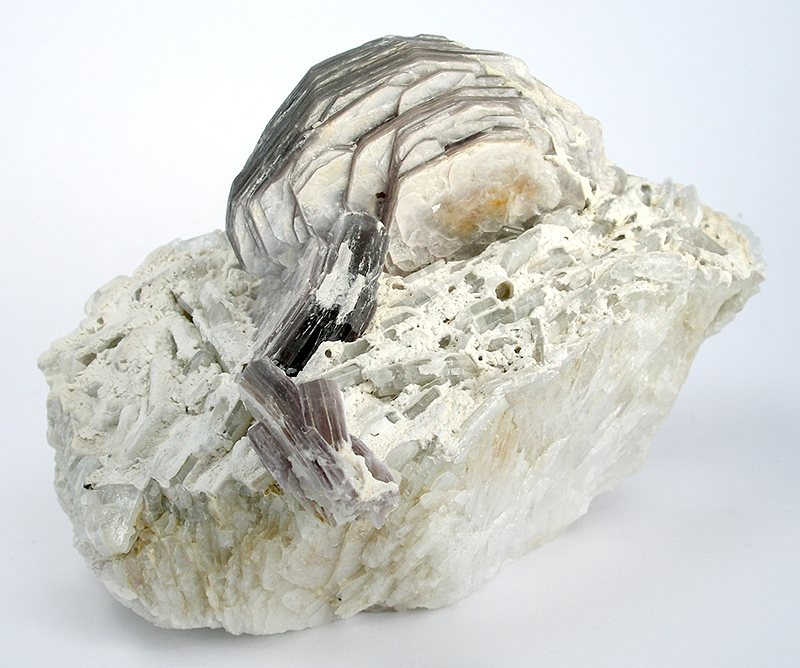 Boromuscovite, Lepidolite Locality: Little Three Mine (Little 3), Ramona District, San Diego County, California, USA (Locality at ) Size: small cabinet, 10 x 8 x 7 cm Lepidolite with Boromuscovite (boron-rich NEW SPECIES) A really fine and attractive lepidolite crystal cluster from anywhere, but especially from San Diego County. This is not just an aside or an association of muscovite here, but rather the new species boromuscovite is present in abundance here as the white earthy stuff. It's a nice example, very rich. The large Lepidolite crystals in middle are 5 cm wide, and have a beautiful metallic lustre, almost a lavender color to them. These specimens came out of one pocket in the 1976 "New Spaulding pocket" and were extensively studied by Gene Foord, for their unusual chemistry. Recently, this muscovite variant has been formally accepted as a new species (thanks to Dr. Robert Lauf for clarifying this for me). Ex. Chuck Houser and Chris Korpi Collections.